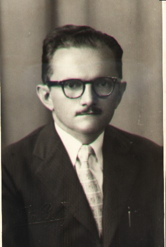 Hiran de Lima Pereira, member of the Brazilian Comunist Party killed by the army during the military dictatorship in Brazil